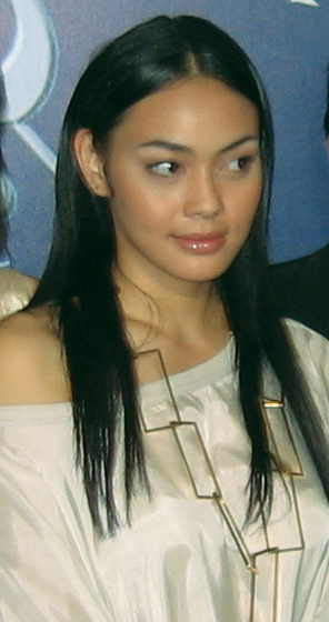 Actress Bongkoj Kongmalai at the world premiere of King Naresuan at CentralWorld in Bangkok.